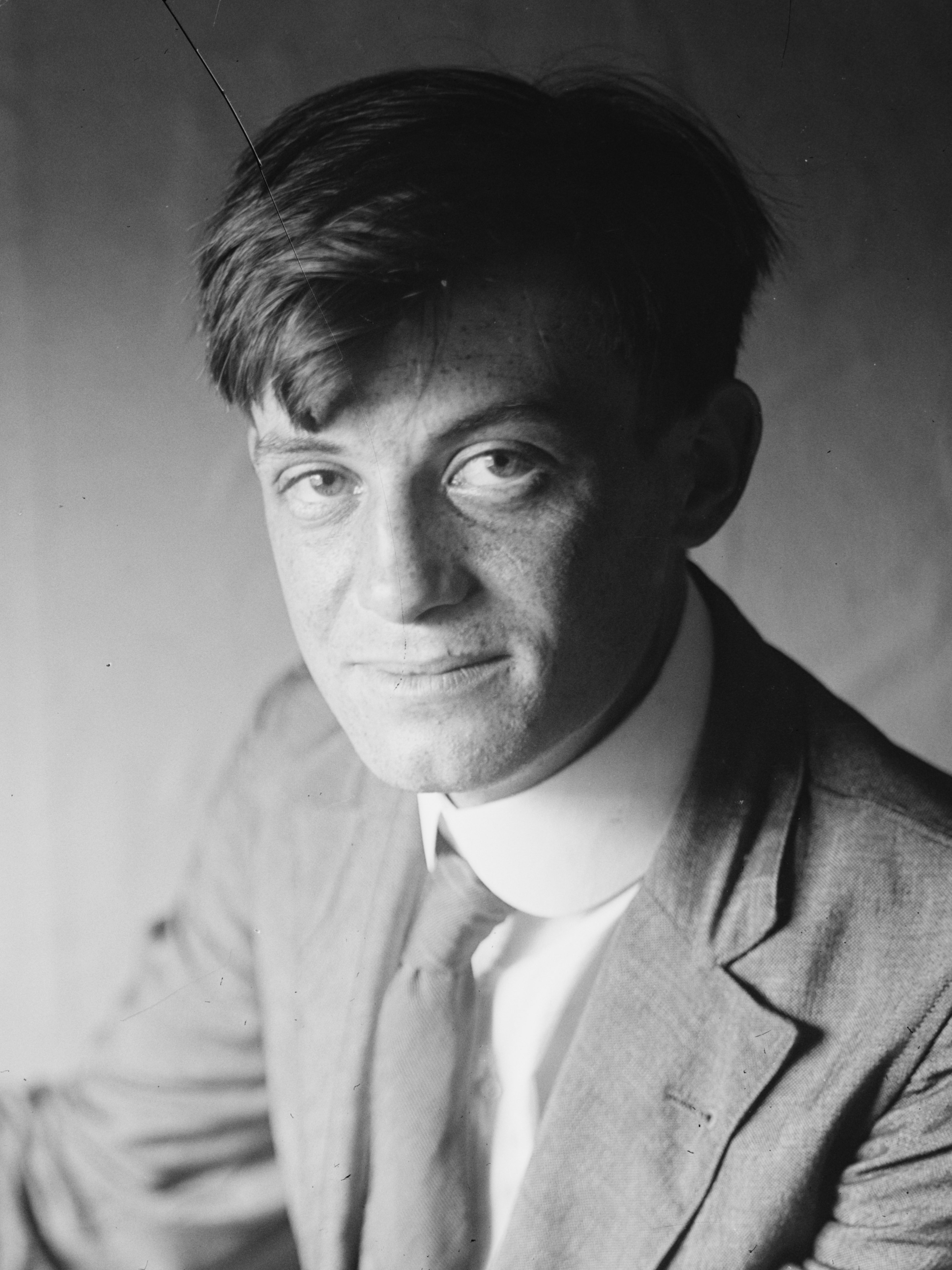 Title: Franz Schwarz Abstract/medium: 1 negative : glass ; 5 x 7 in. or smaller.